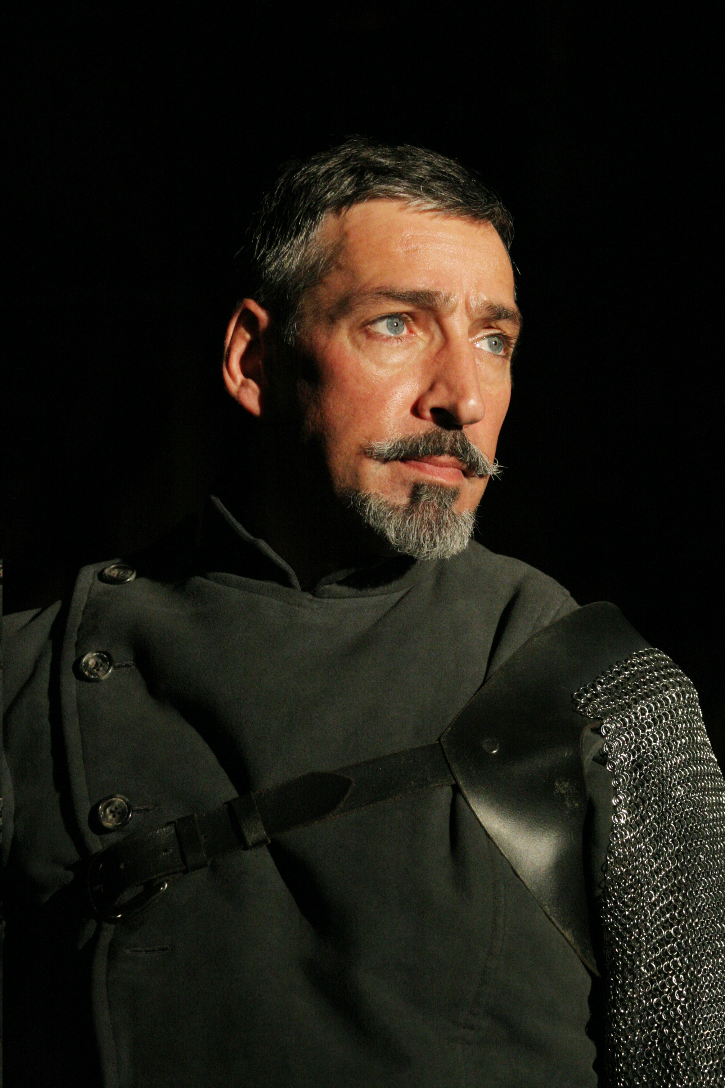 Miles Richardson as the Duke of Exeter in The Royal Shakespeare Company's production of Henry V. The copyright has been granted. Photo by Ellie Kurtz